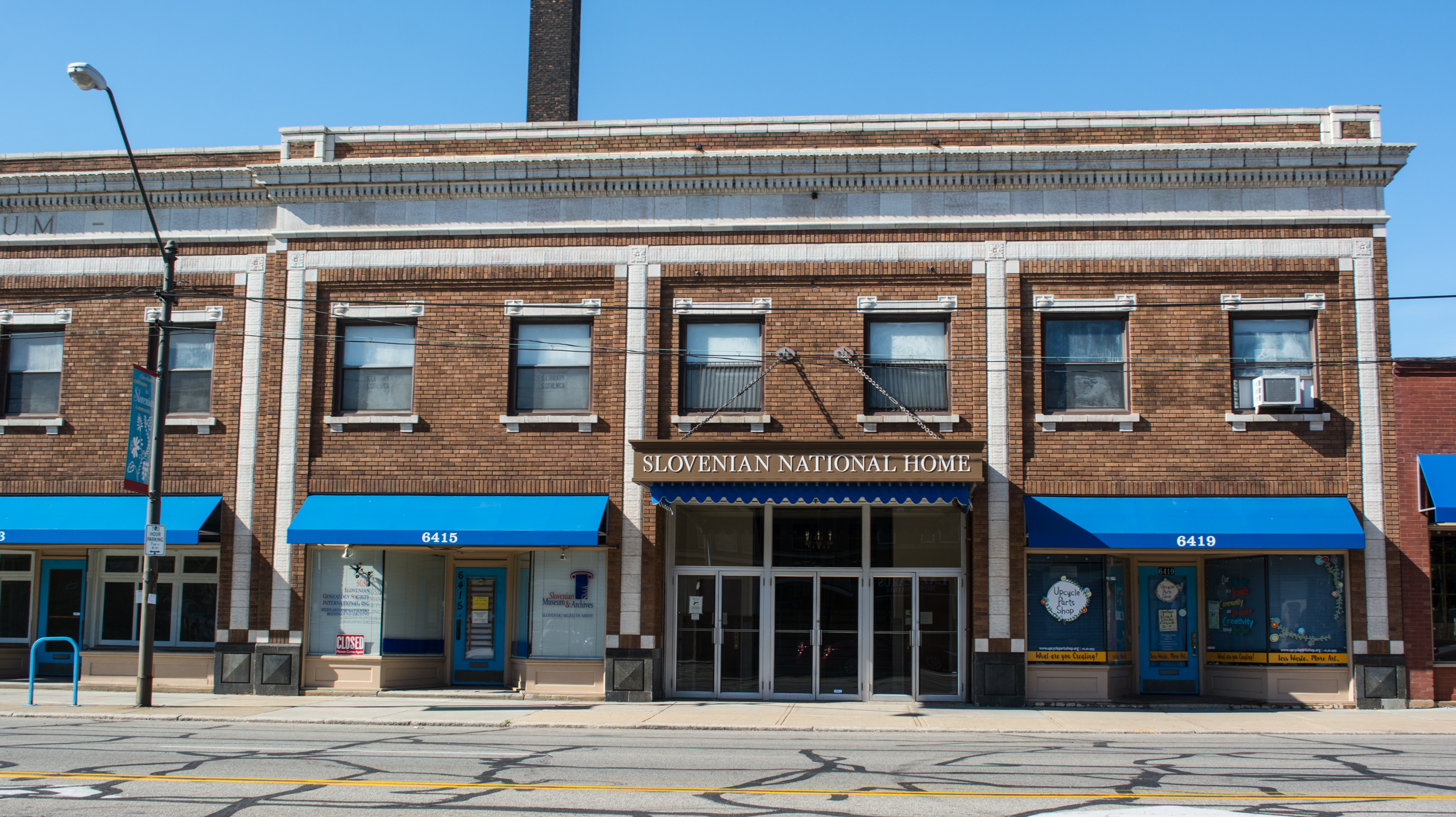 The Slovenian National Home at 6409 St. Clair Avenue in Cleveland, Ohio, in the United States. The organization bought the Italianate Diemer mansion in 1918 and constructed the Slovenian National Home as a wraparound building in 1924 at a cost of $106,240. It contained two auditoriums, several meeting rooms, offices, the Slovenian National Library, and a gymnasium. The building was named a Greater Cleveland Landmark in 1984. The Eddie Kenik annex was constructed in 1994.